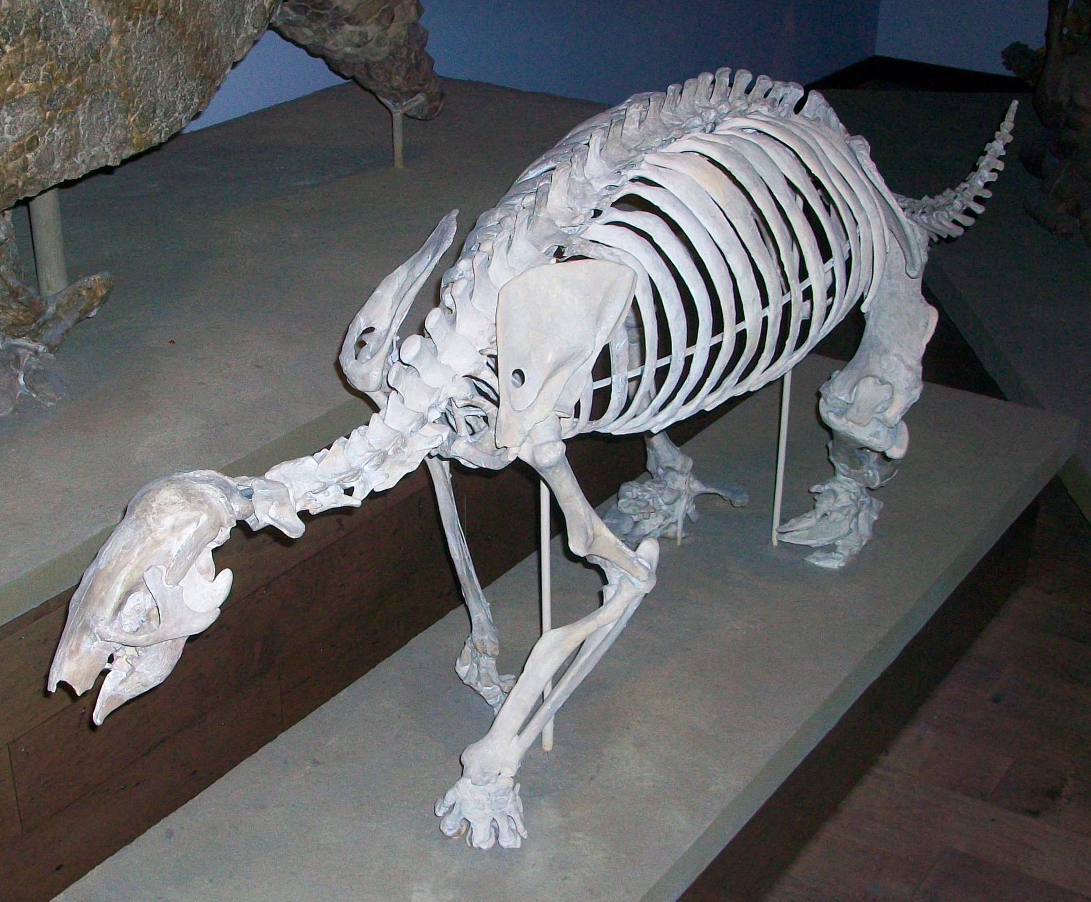 Mounted skeleton of Pronothrotherium typicum in the Field Museum of Natural History.